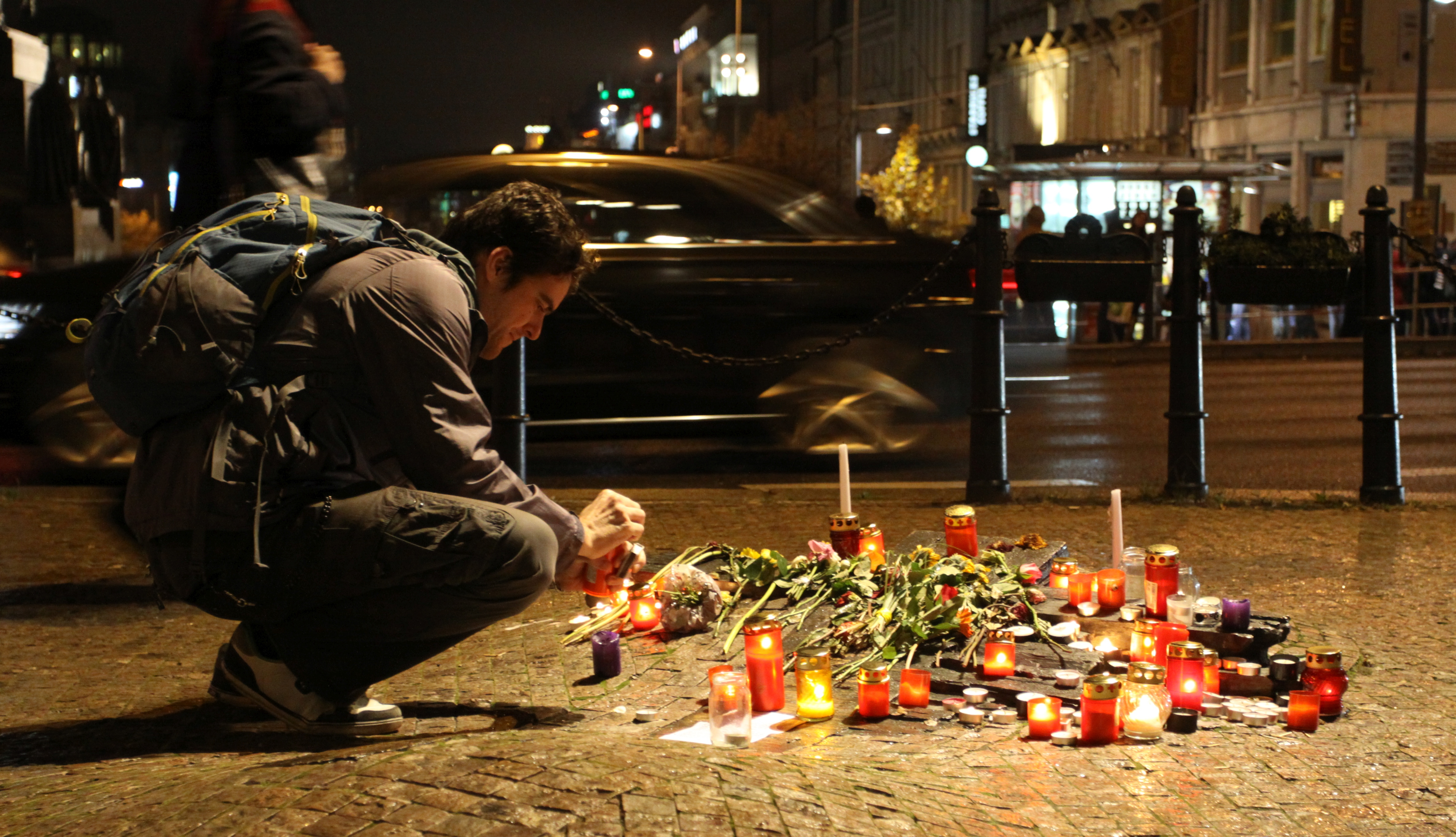 Palach and Zajíc memorial. 25th anniversary of Velvet revolution on Wenceslas Square in Prague, Czech Republic